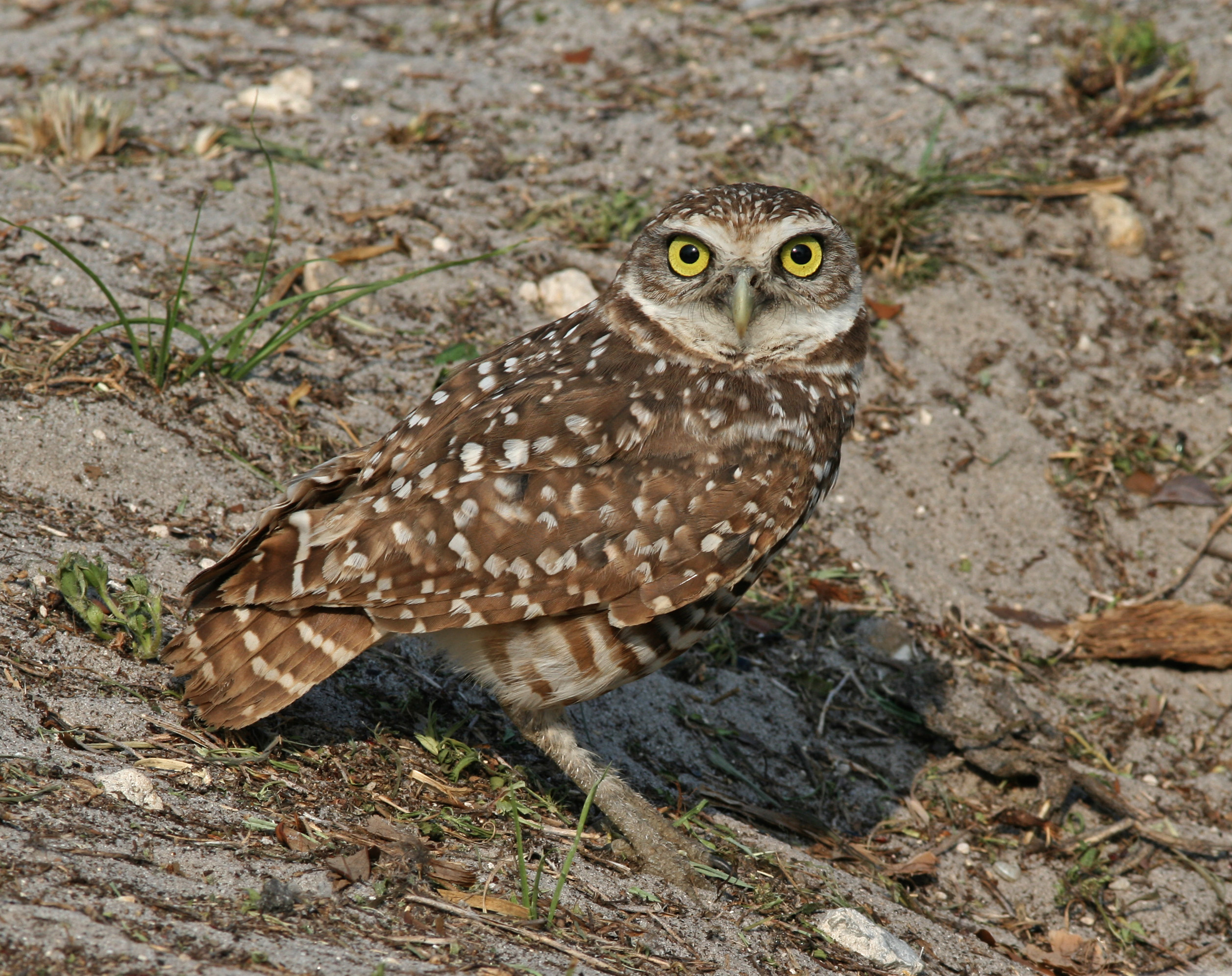 Burrowing Owl, Florida subspecies, near burrow in scrub/sand setting.